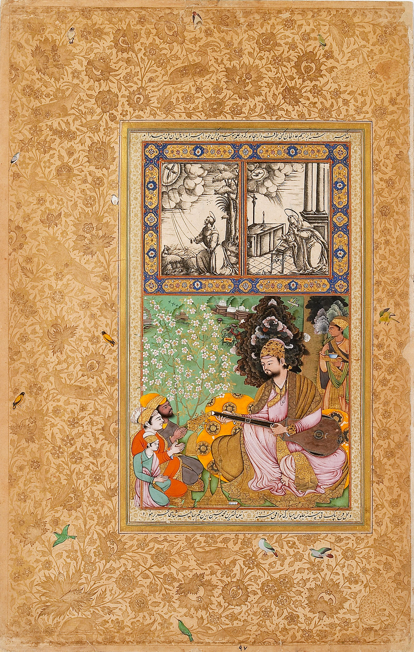 Farrukh Beg. Sultan Ibrahim 'Adil Shah II Playing the Tambur. 1595-1600, Nqprstkovo Muzeum, Prague